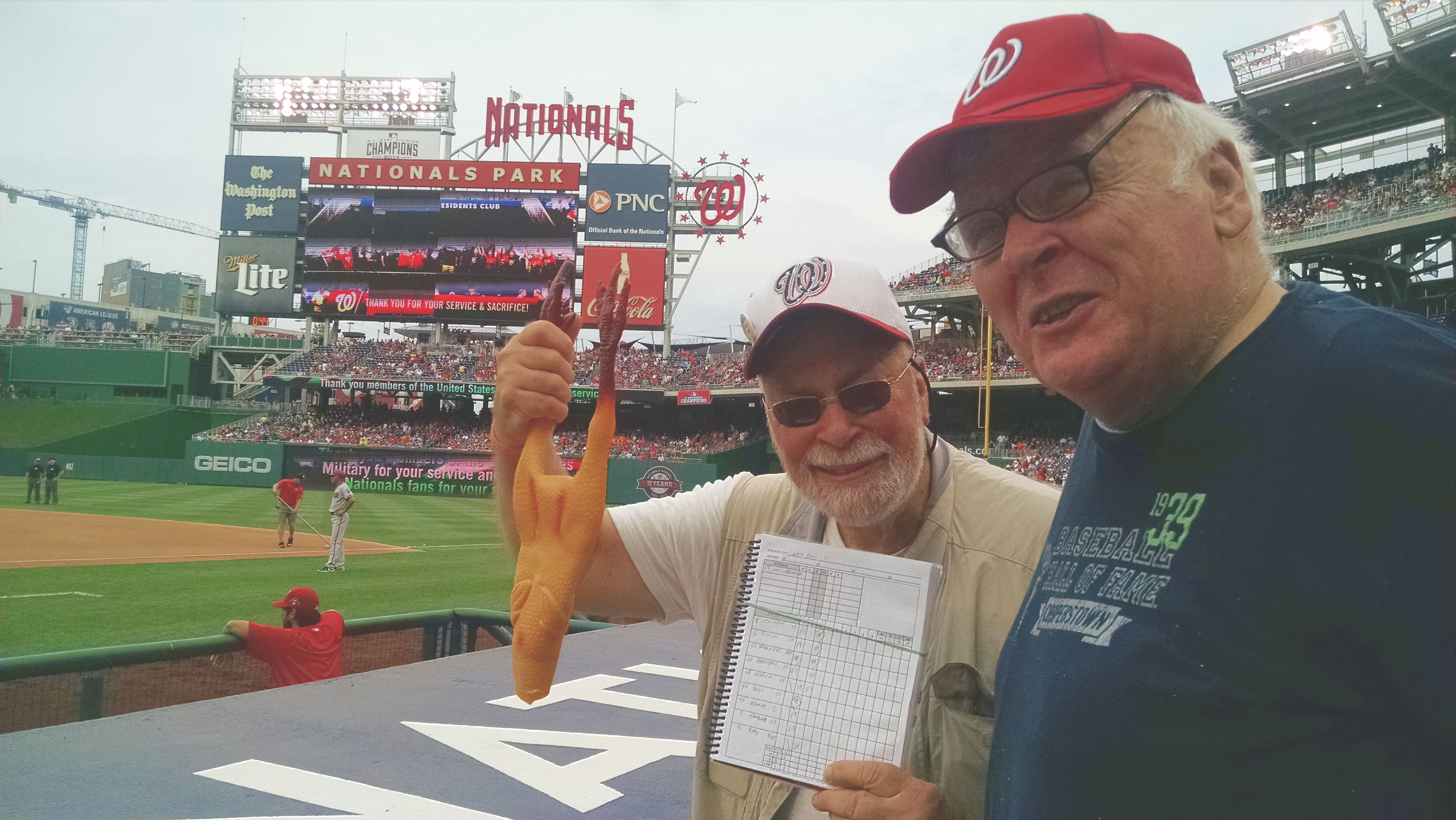 Hugh Kaufman, better known as the Rubber Chicken Man, cheers on the Washington Nationals with baseball writer Paul Dickson